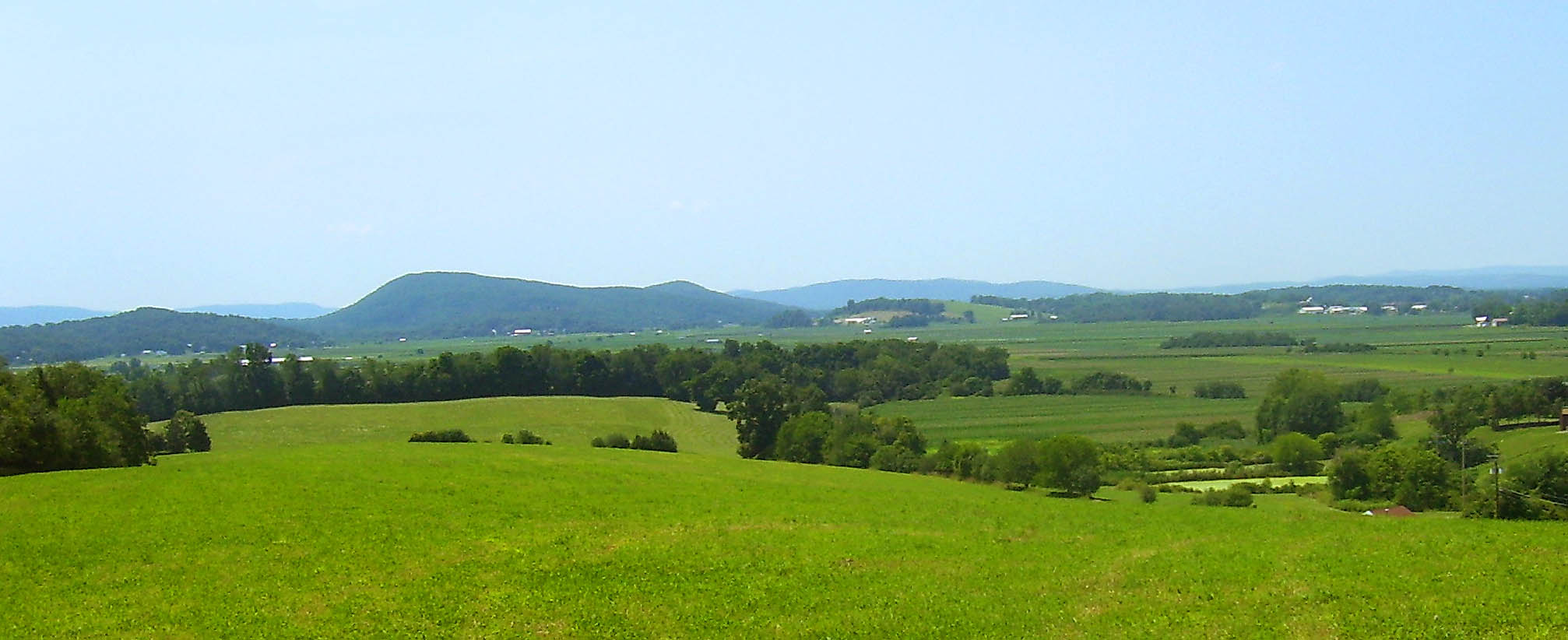 Black Dirt Region of Orange County, NY, created by floodings and diversion of Wallkill River